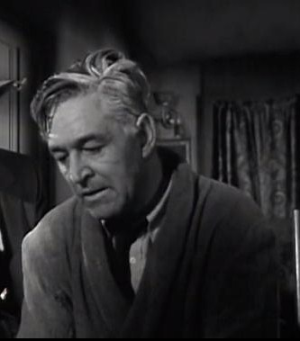 Ted de Corsia as Bettini in the Big Combo